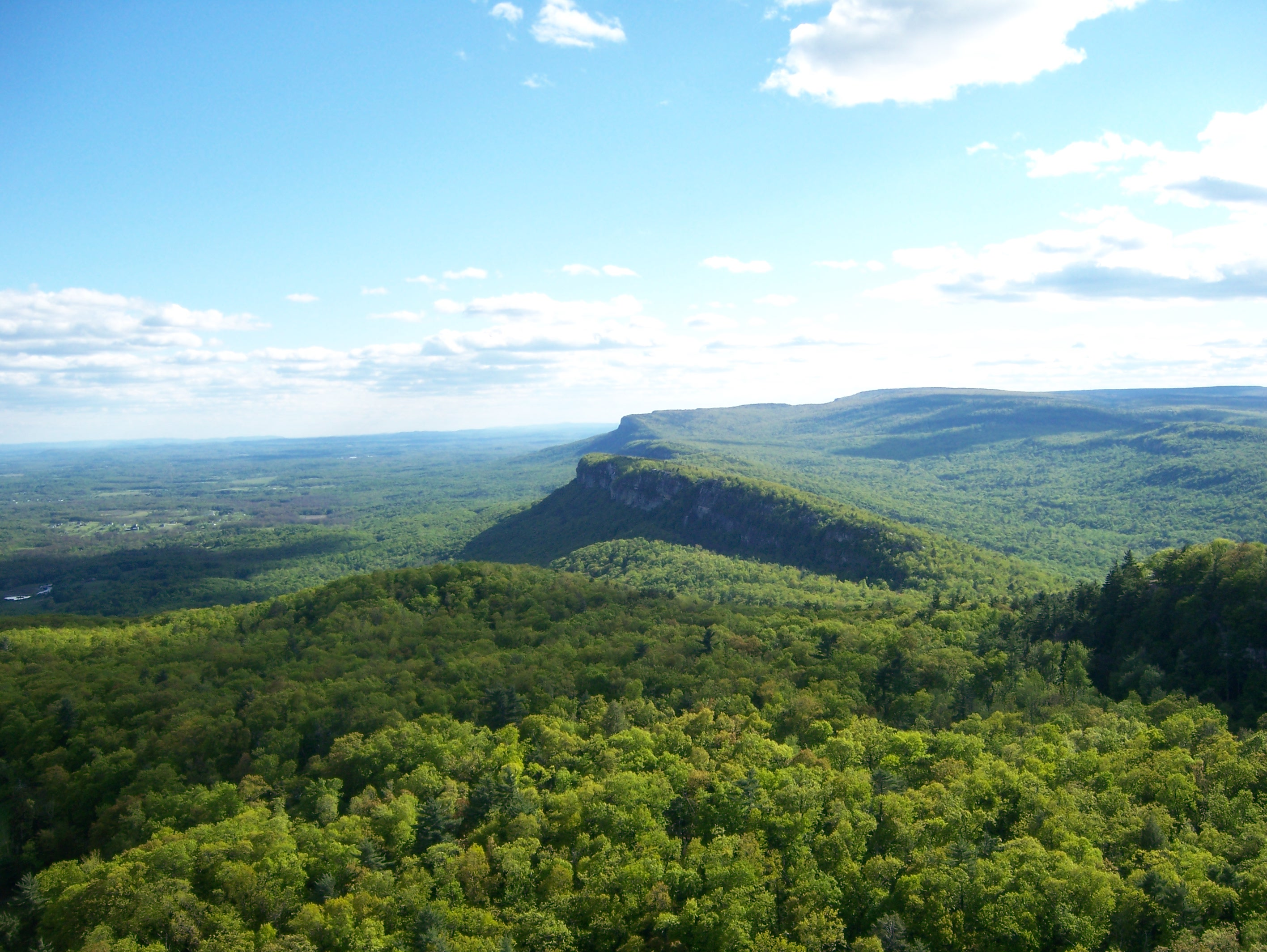 Shawangunk Ridge visible from Skytop cliff tower near Mohonk Mountain House. The closer cliff is called the Trapps, the second (hardly visible) is Near Trapps cliff and in the back one can see Millbrook Mountain. Hudson Valley visible to the left.